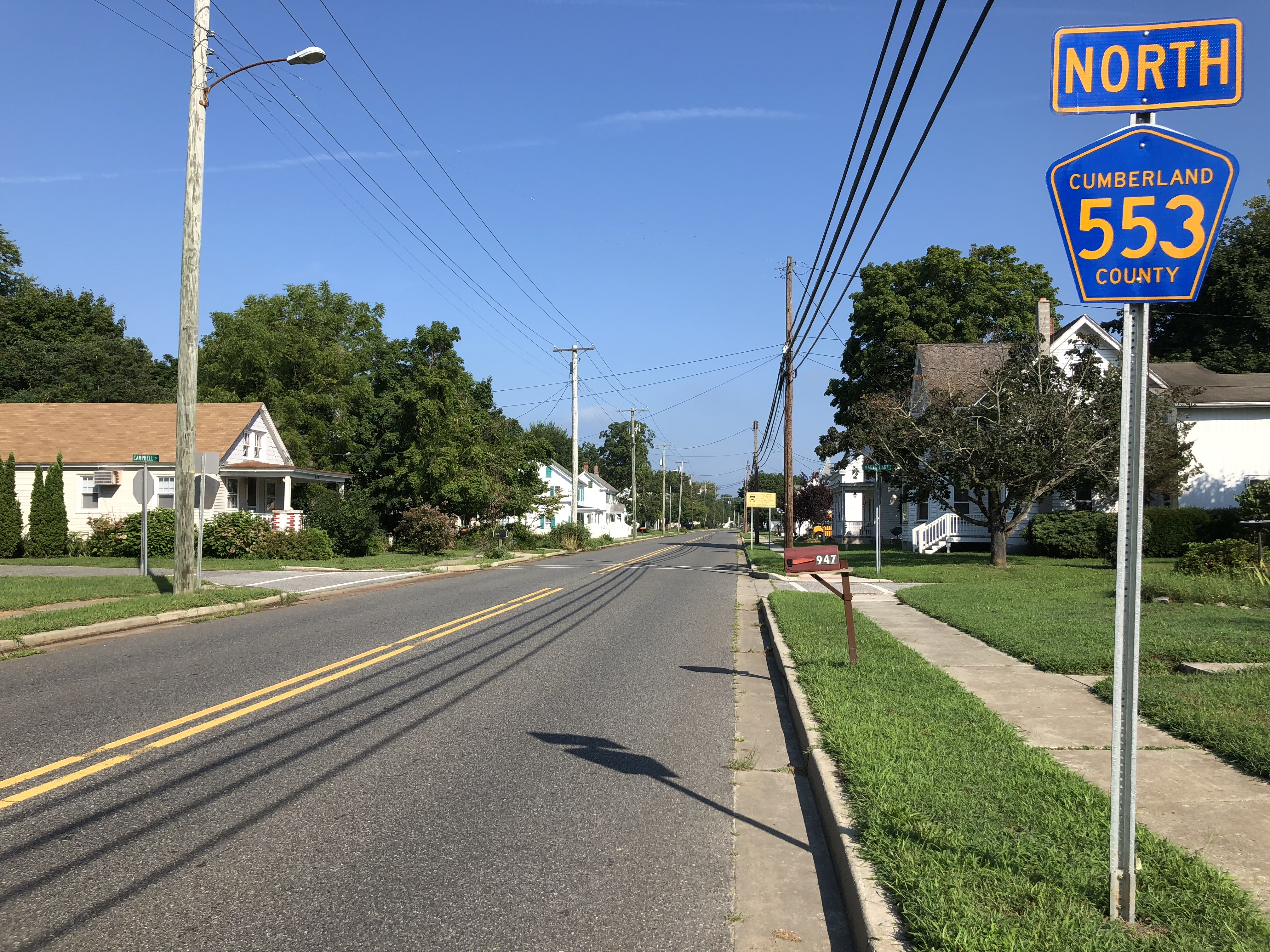 View north along Cumberland County Route 553 (Main Street) at Campbell Street and Marts Lane in Downe Township, Cumberland County, New Jersey